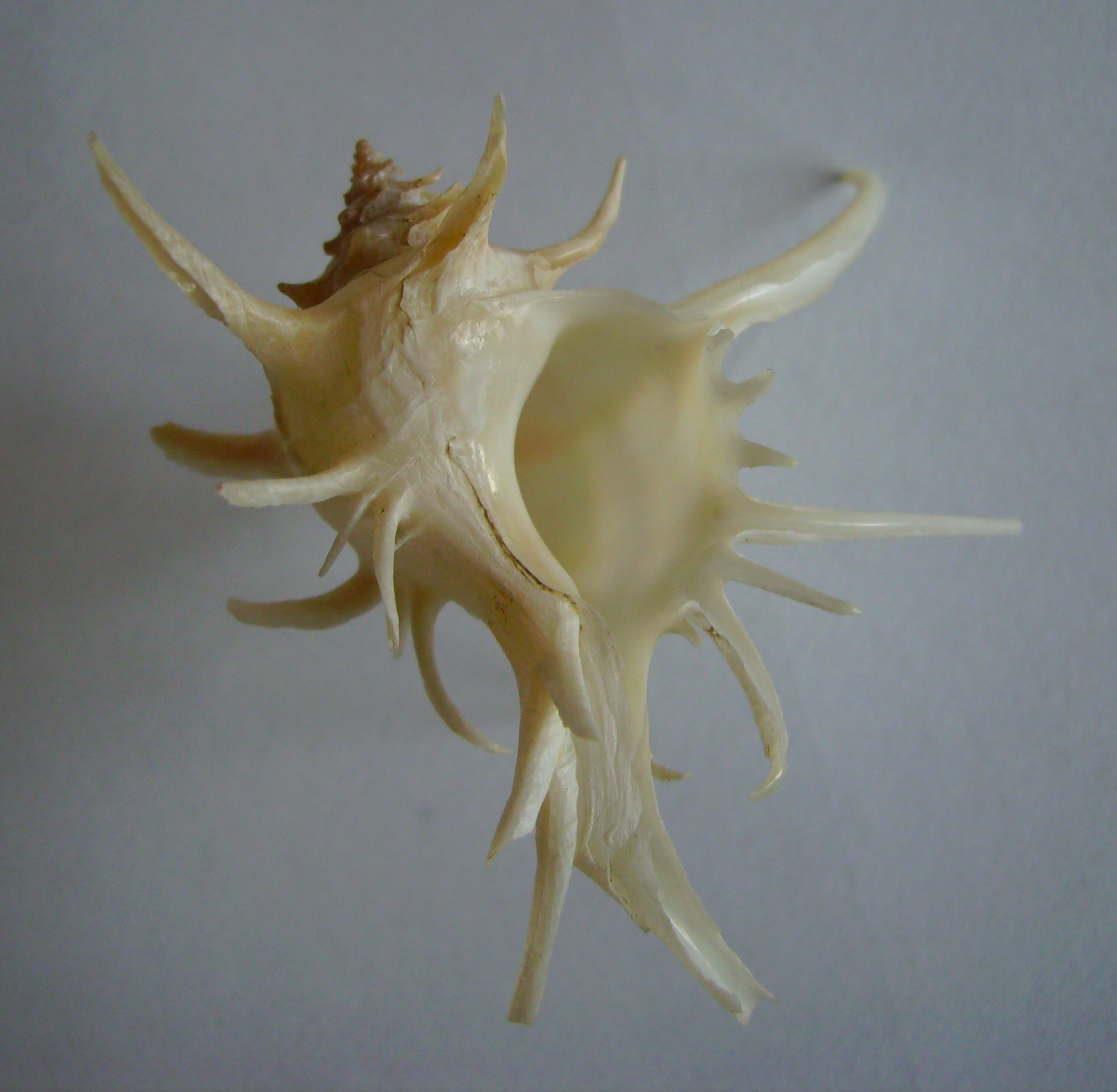 Poirieria zelandicus (inside) from New Zealand. This work has been released into the public domain by its author, Graham Bould. This applies worldwide.In some countries this may not be legally possible; if so:Graham Bould grants anyone the right to use this work for any purpose, without any conditions, unless such conditions are required by law.